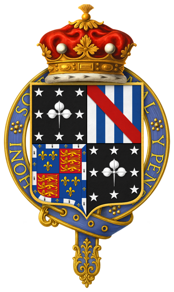 Garter-encircled coat of arms of Oswald Phipps, 4th Marquess of Normanby, KG, as displayed on his Order of the Garter stall plate in St. George's Chapel, Windsor Castle.